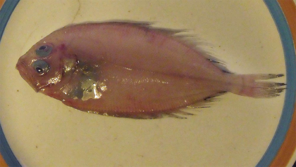 Lepidorhombus boscii collected by trawling nets in Italian waters of central Thyrrenian sea. Photo by Massimiliano Marcelli.